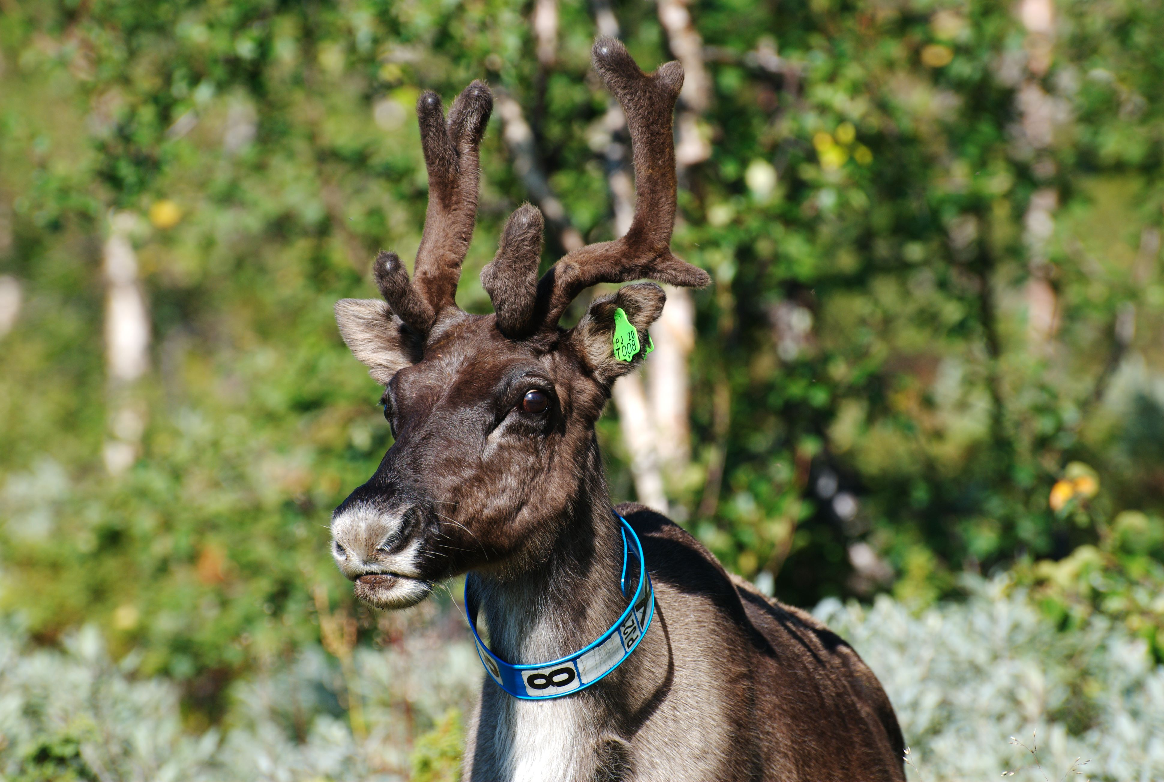 Strolling reindeer (Rangifer tarandus) in the Rapadalen valley, Lappland, Sweden.